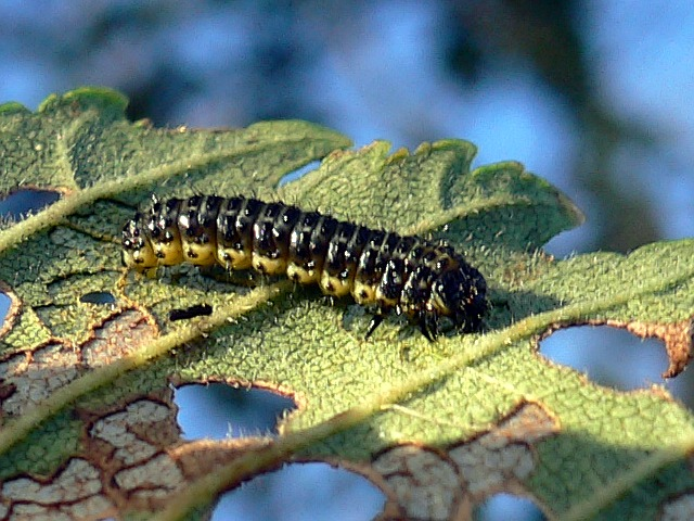 larva of Elm Leaf Beetle (Xanthogaleruca luteola) (Müller 1766), on elm - Haßloch (Pfalz), Germany